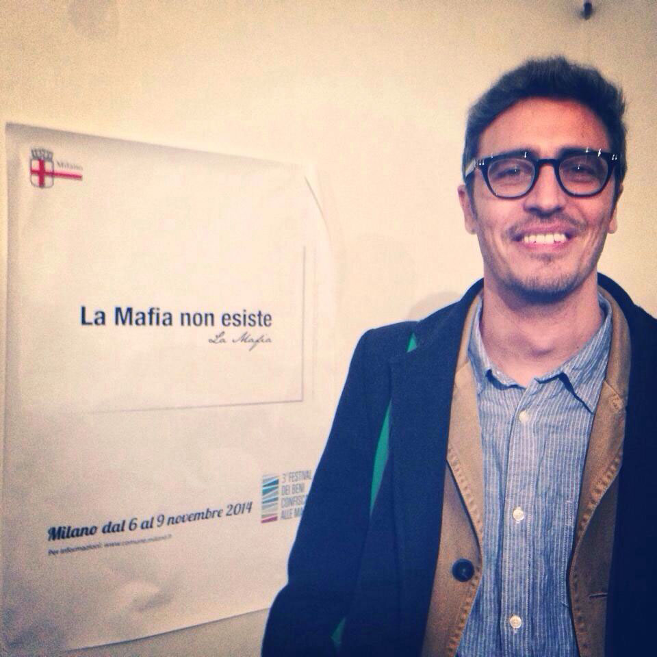 Italian artist Pierfrancesco Diliberto at Festival dei beni confiscati alle Mafie - 2012 edition